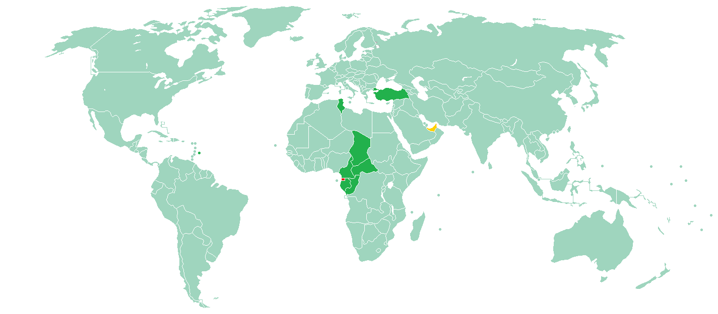 Visa policy of Equatorial Guinea Equatorial Guinea Visa exempt Visa on arrival